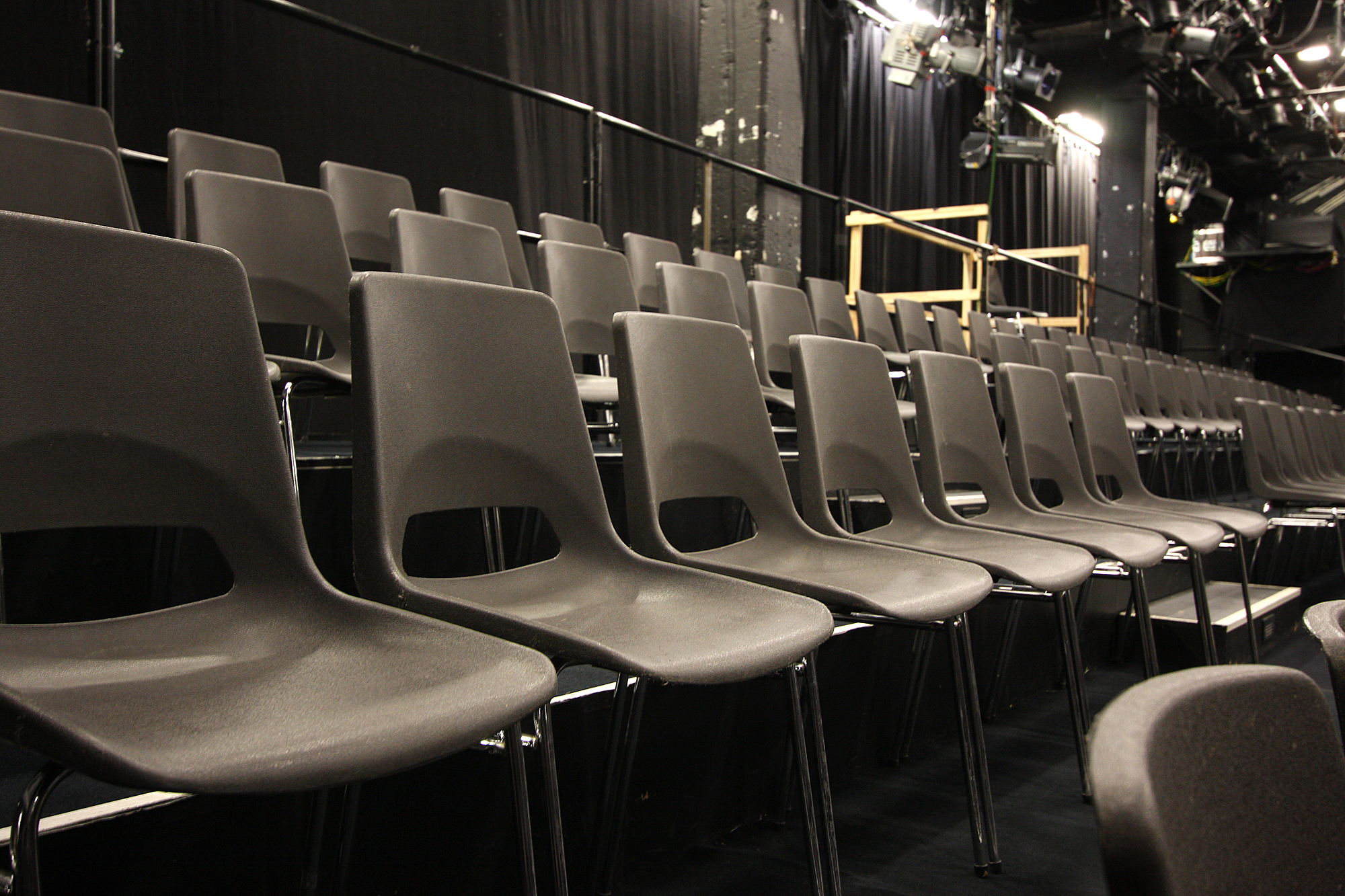 Cologne Opera house and theatre („Bühnen Köln“), „Schlosserei“ (stage) area